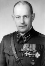 Tor Lindblad, Knight of the Mannerheim Cross #93